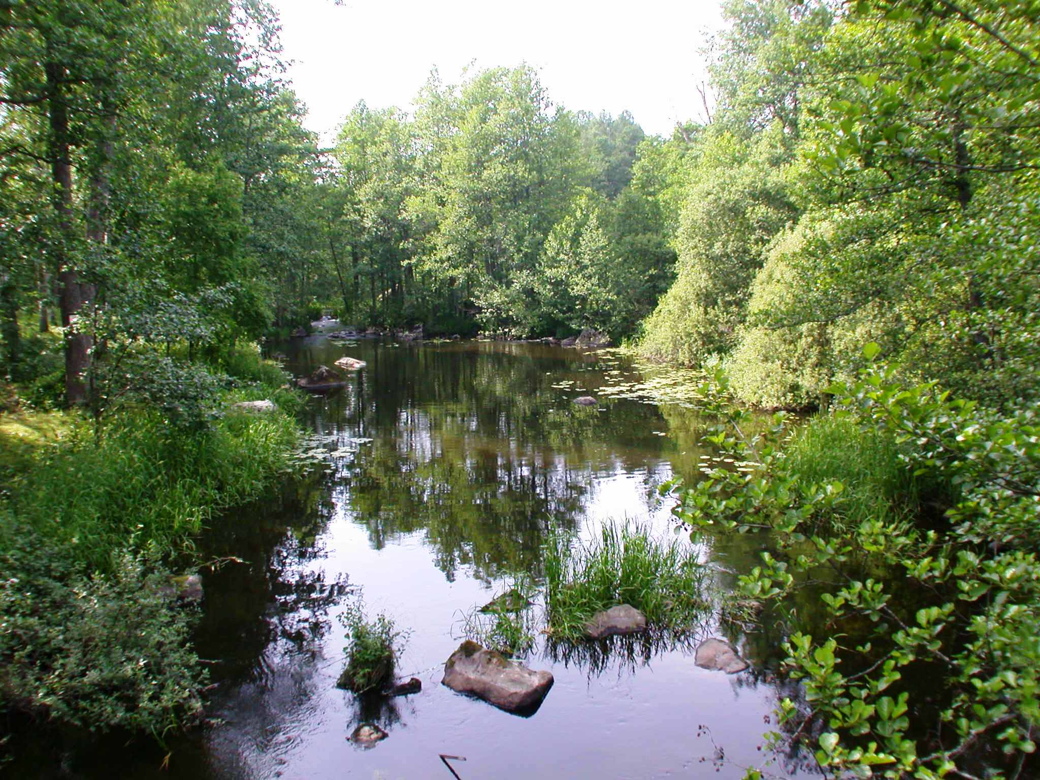 The stream, Macmyra bruk and destillery